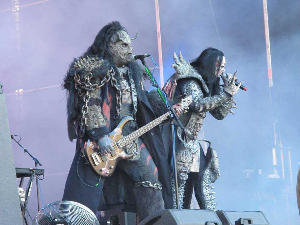 OX and Mr L during Lordi's concert at Tallinn Star Weekend festival 2014.